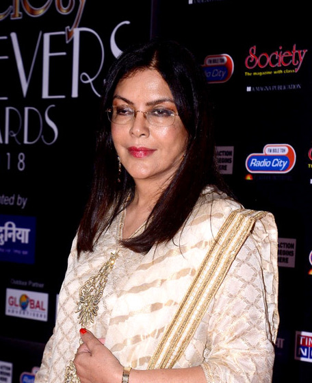 Zeenat Aman at the Society Achievers Awards 2018